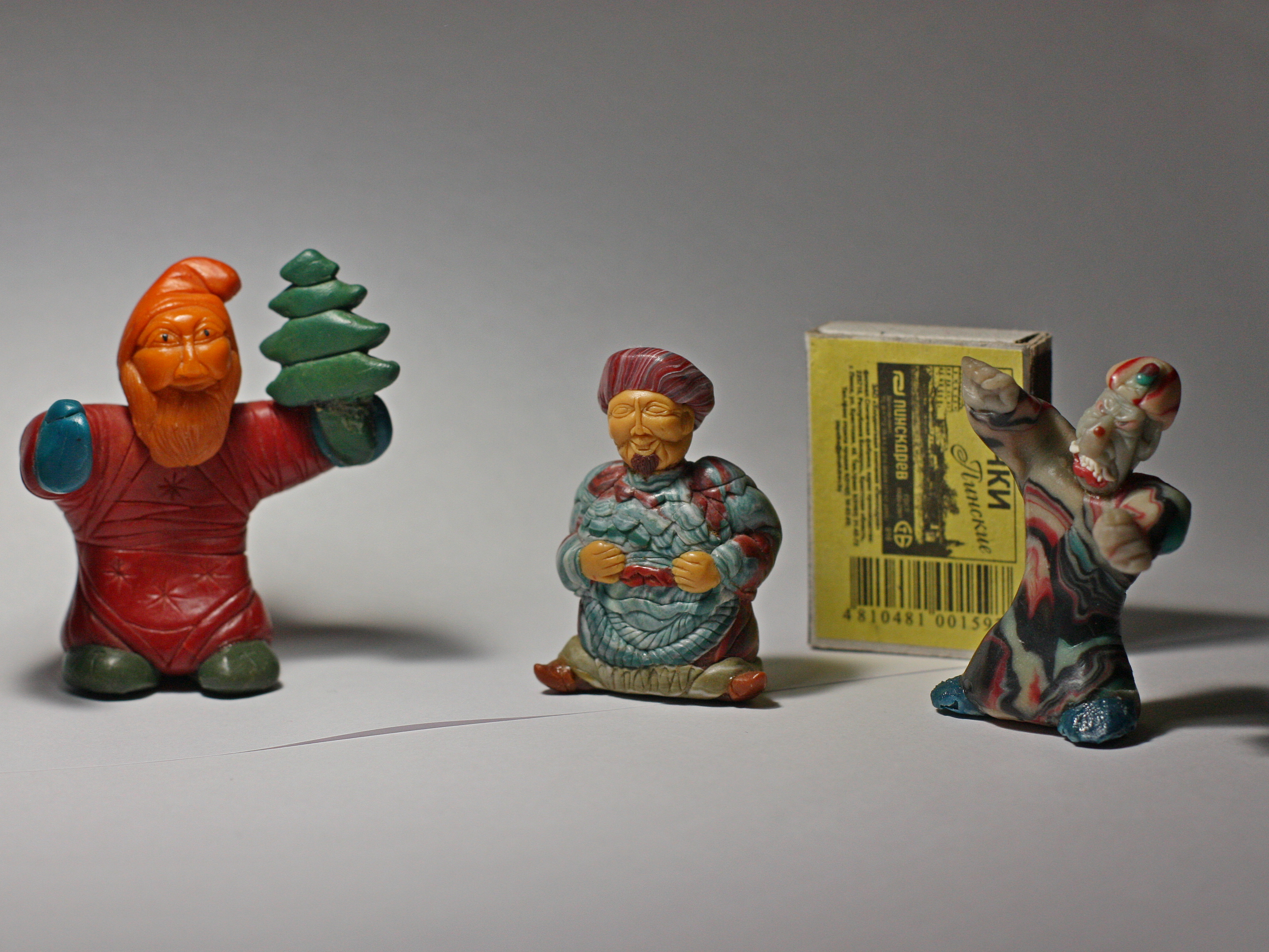 Figures made of plastic "Santa Claus", "Sultan" and "gin", made by playwright Vadim Levanov on the background of a matchbox to understand the size and scale. Early 90's. Togliatti / Samara, Russia.